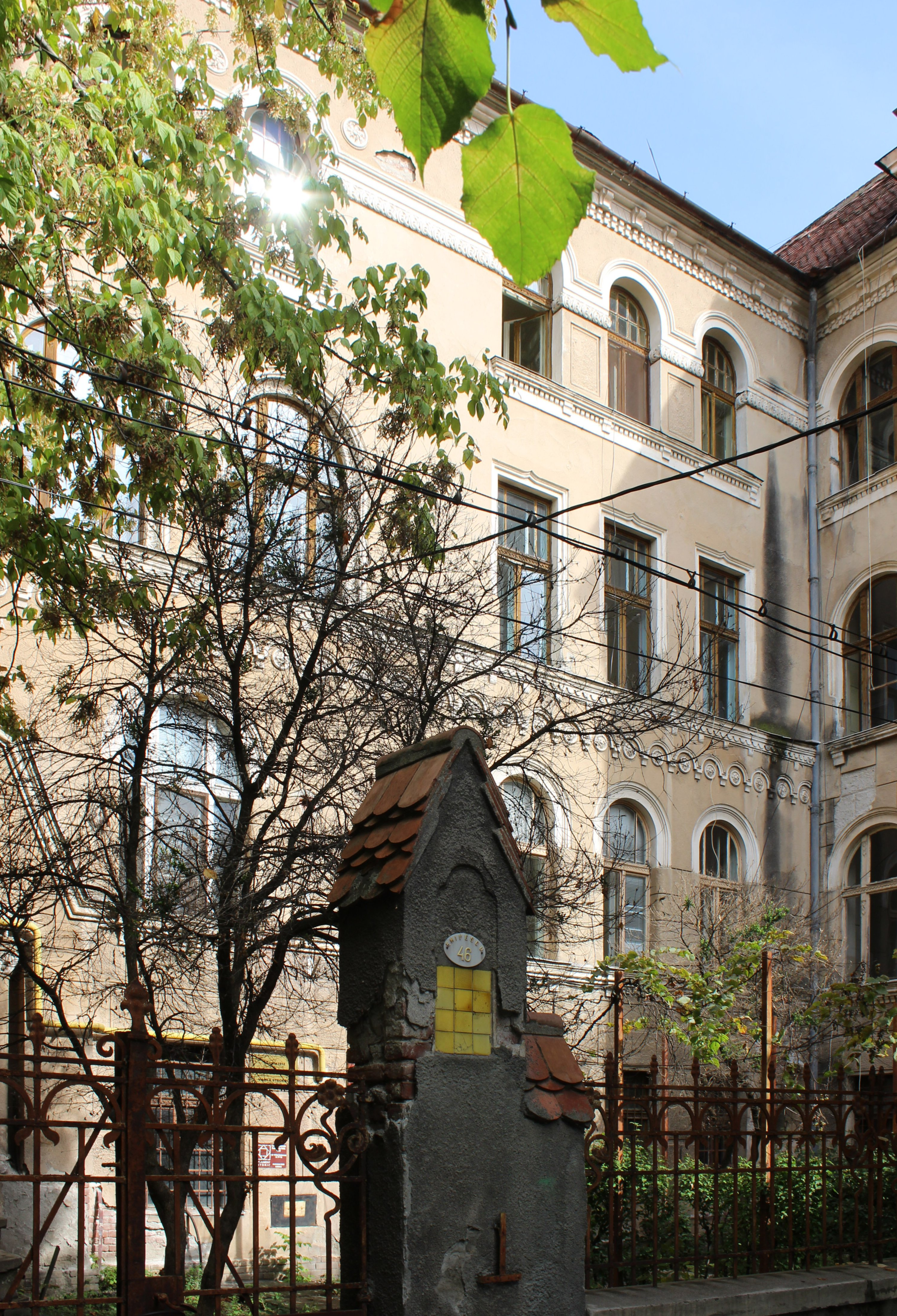 Romanian Maiden School, Arad, Romania, built 1912.